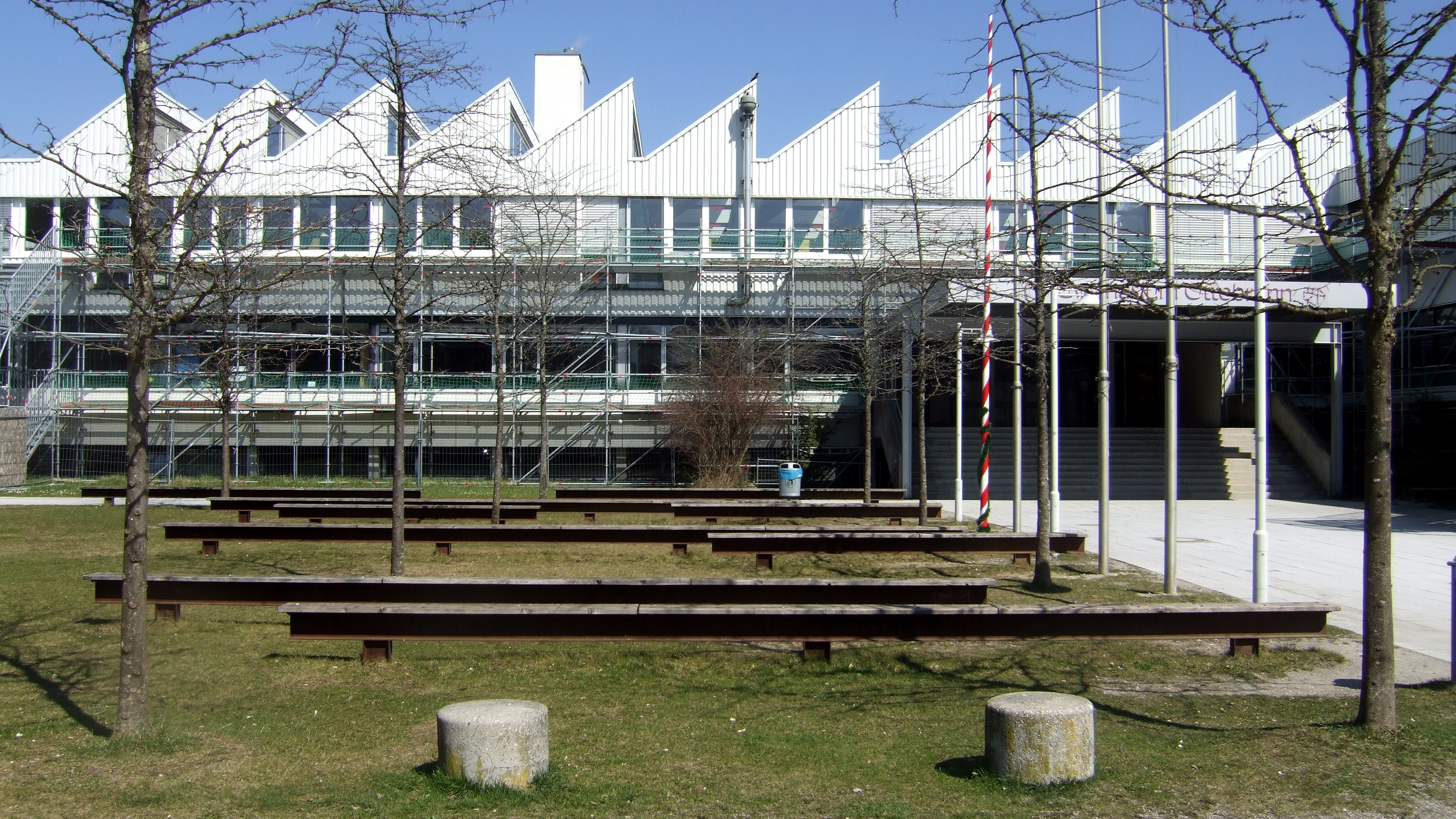 Ottobrunn: High school